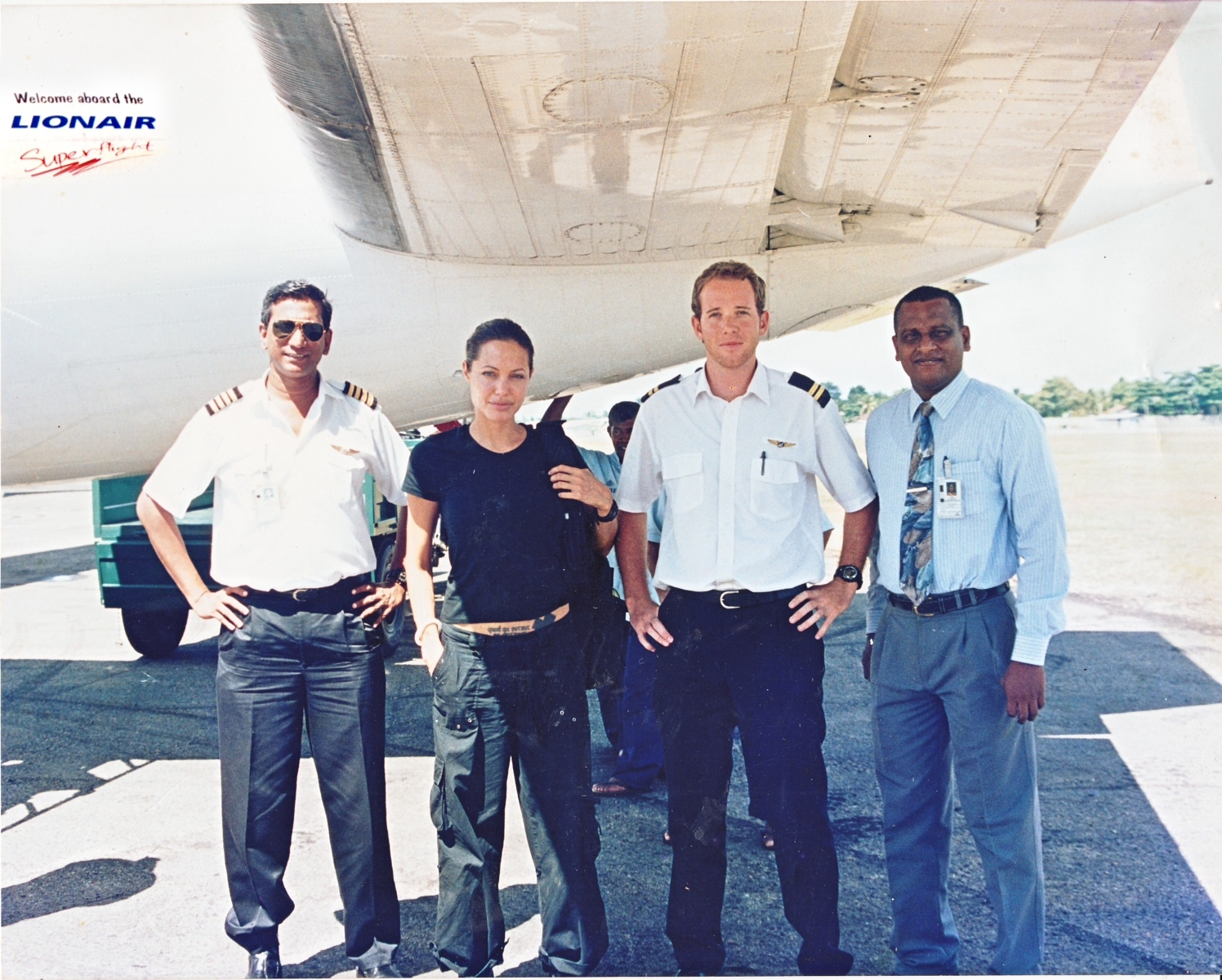 Angelina Jolie is seen after traveled by now defunct Lionair at the Jaffna Airport during her visit to war-ravaged Jaffna and other parts of Northern Province in Sri Lanka as the Goodwill Ambassador for UNHCR in 2003.